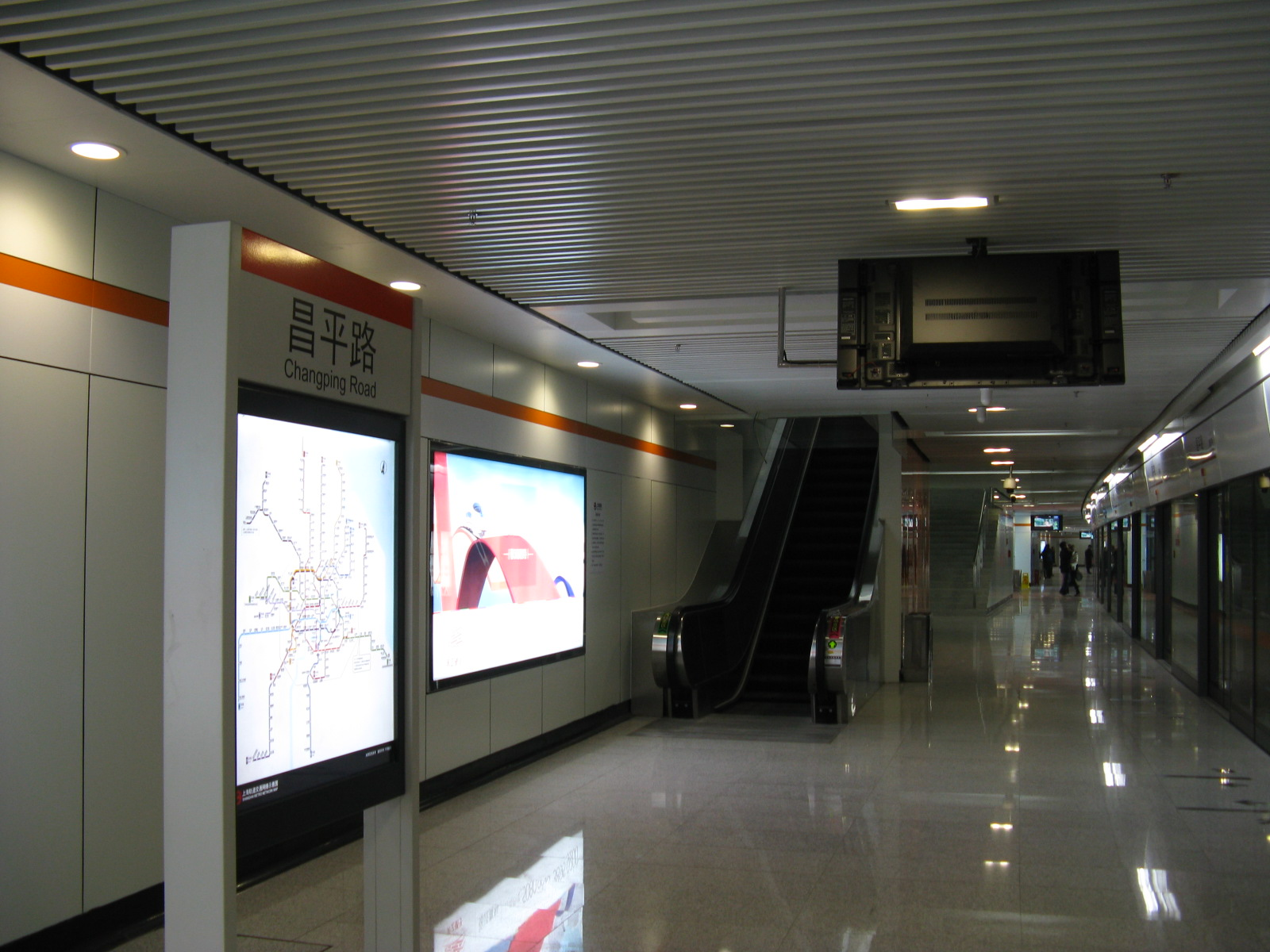 Changping Road Station Line7 Shanghai Metro